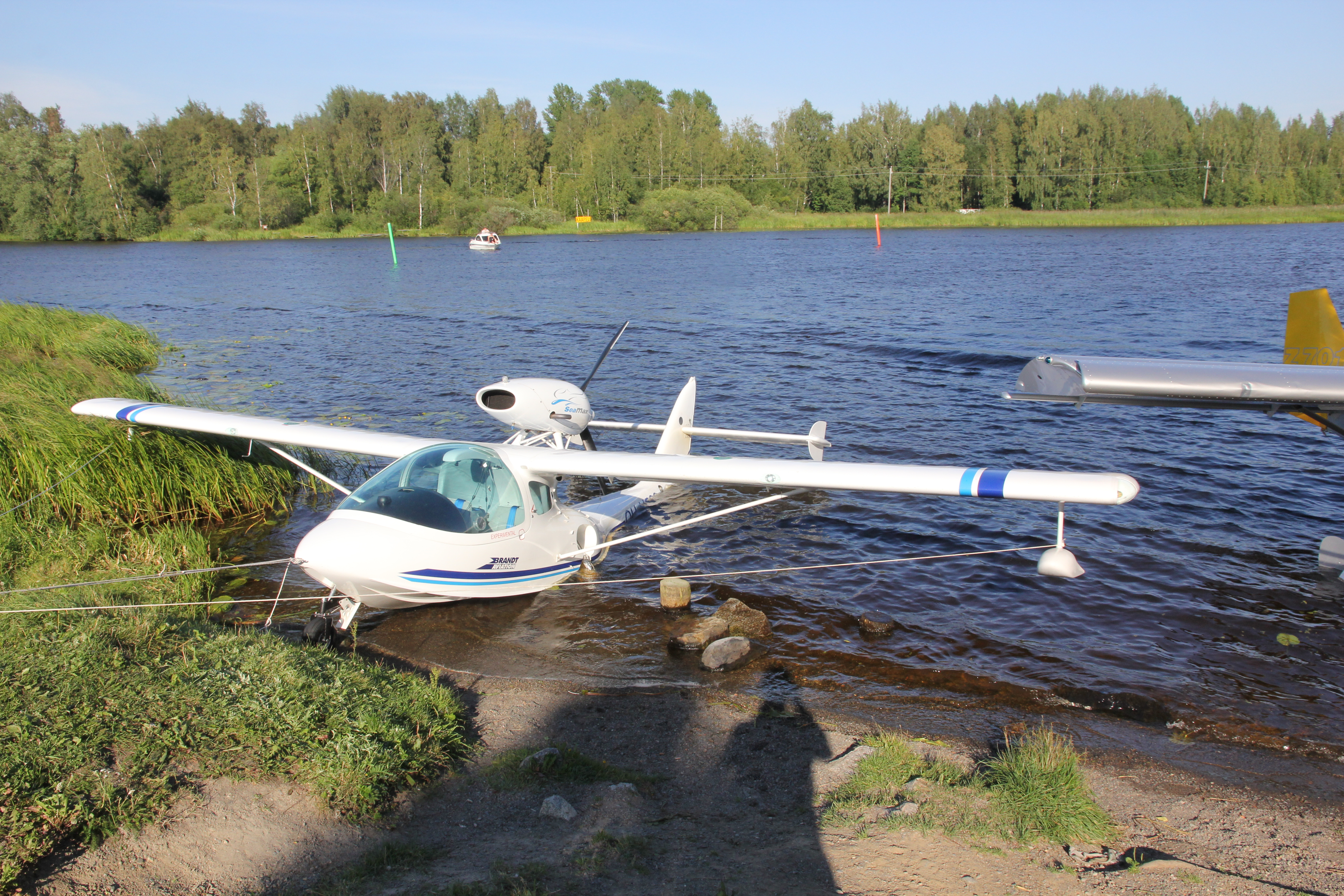 AirMax SeaMax M-22 ultralight amphibious aircraft (OH-U526) in Hämeenlinna Linnasalmi shore. Photographed in Kuumaa Huumaa 2012 aviation event. This aircraft was destroyed in a fatal accident in 2014.